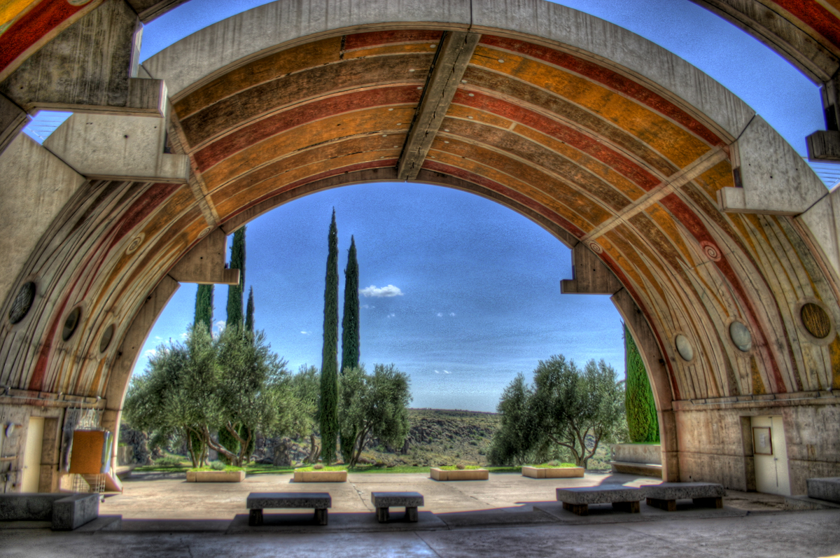 Vaults at Arcosanti, Arizona.